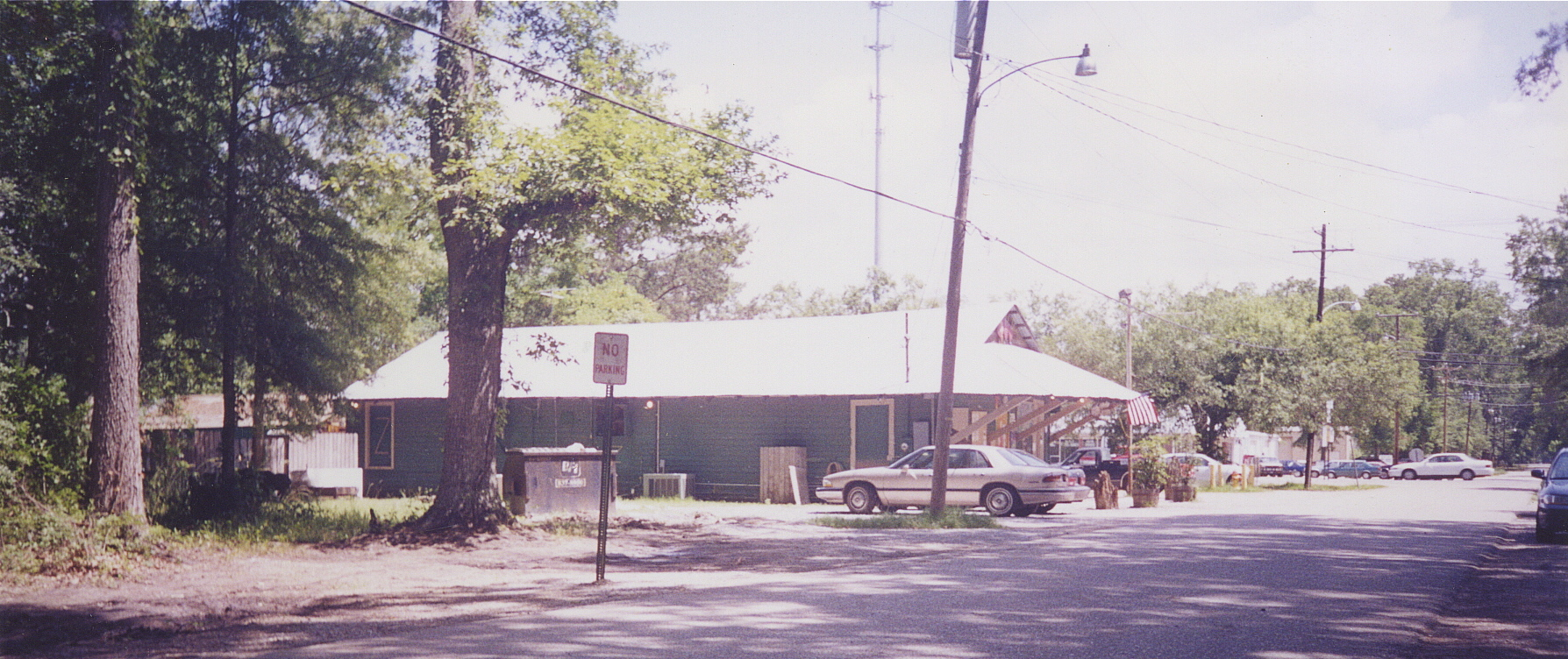 Ruby's Roadhouse, Mandeville, Louisiana